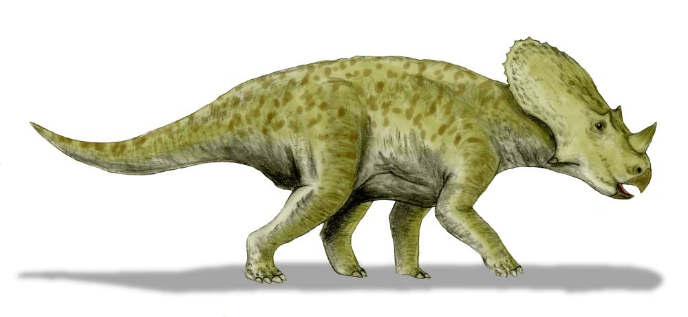 Brachyceratops montanensis, a ceratopsian from the Late Cretaceous of North America, pencil drawing, digital coloring